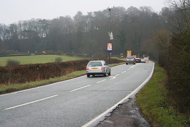 A606 on Broughton Hill. Traffic approaching Broughton Hill. This hill is a major feature of the area, rising 80 metres in 0.5 km. Leicestershire have been liberal with their enhancement of the countryside again, all in the name of safety. It has been noted in the local press that a proliferation of signs causes confusion and inattention in drivers!